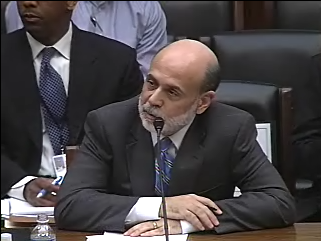 A frame from a screencast from the US House Financial Committee full committee hearing "An Examination of the Extraordinary Efforts by the Federal Reserve Bank to Provide Liquidity in the Current Financial Crisis which took place Tuesday, February 10, 2009, 1:00pm, 2128 Rayburn House Office Building. The frame shows Chairmen Ben Bernanke responding to a question posited by John E. Sweeney Full Committee